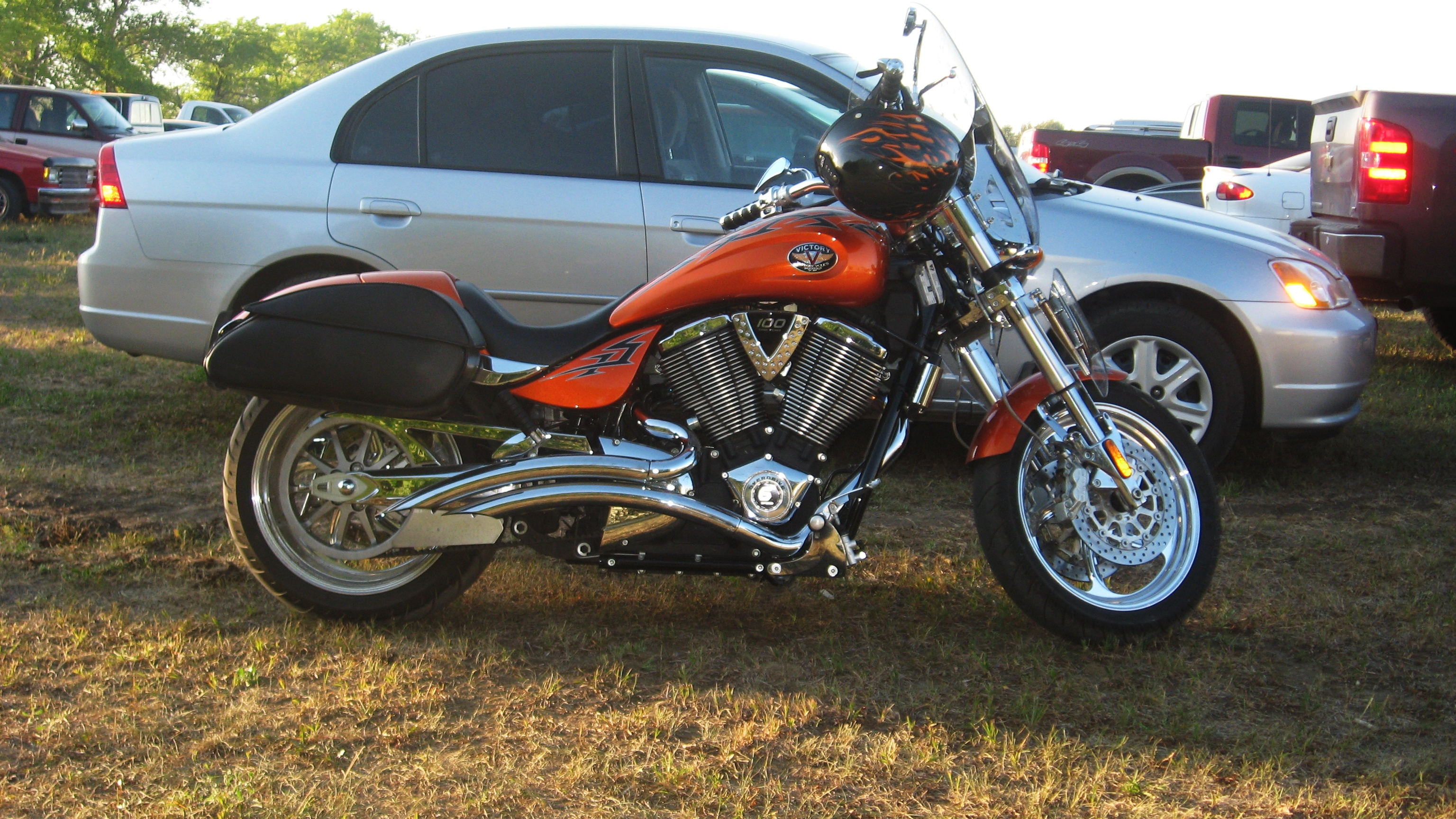 Victory motorcycle. Shot 23 Aug 2008.